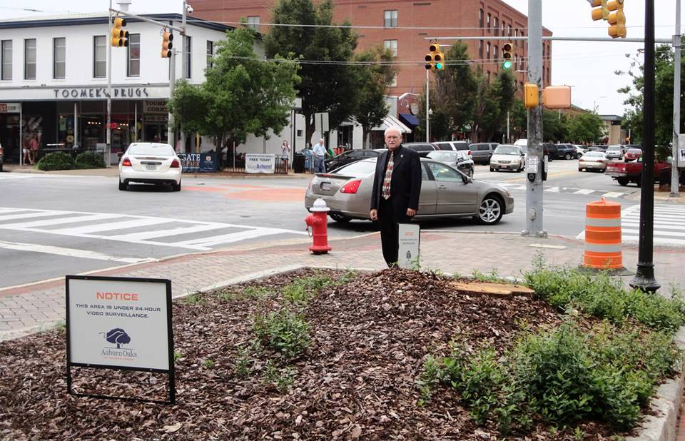 Toomer's Corner in Auburn, Alabama, after the poisoned trees after removal of the poisoned trees.